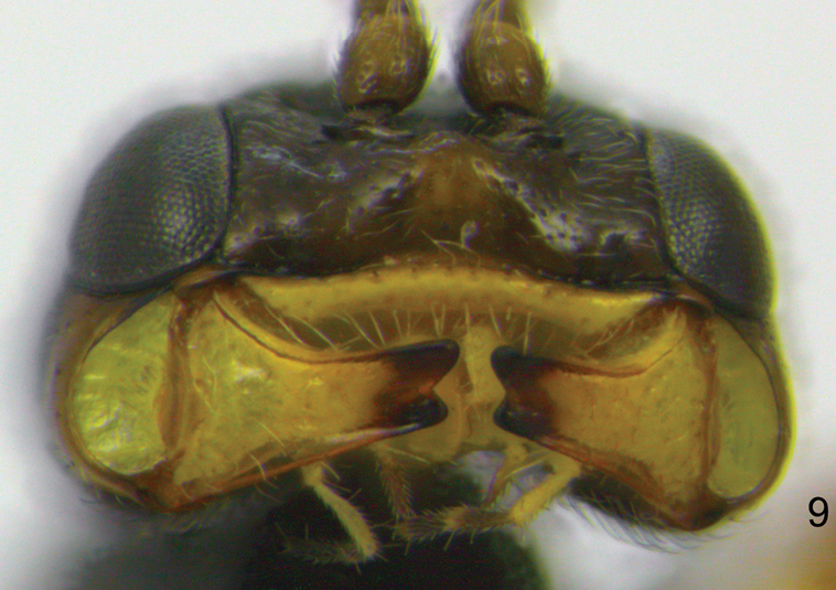 Idiogramma elbakyanae. Figures 8–11. Idiogramma elbakyanae sp. n., holotype female 8 habitus (without antennae and wings), lateral view 9 head, antero-ventral view 10 head, dorsal view 11 head, dorso-lateral view.